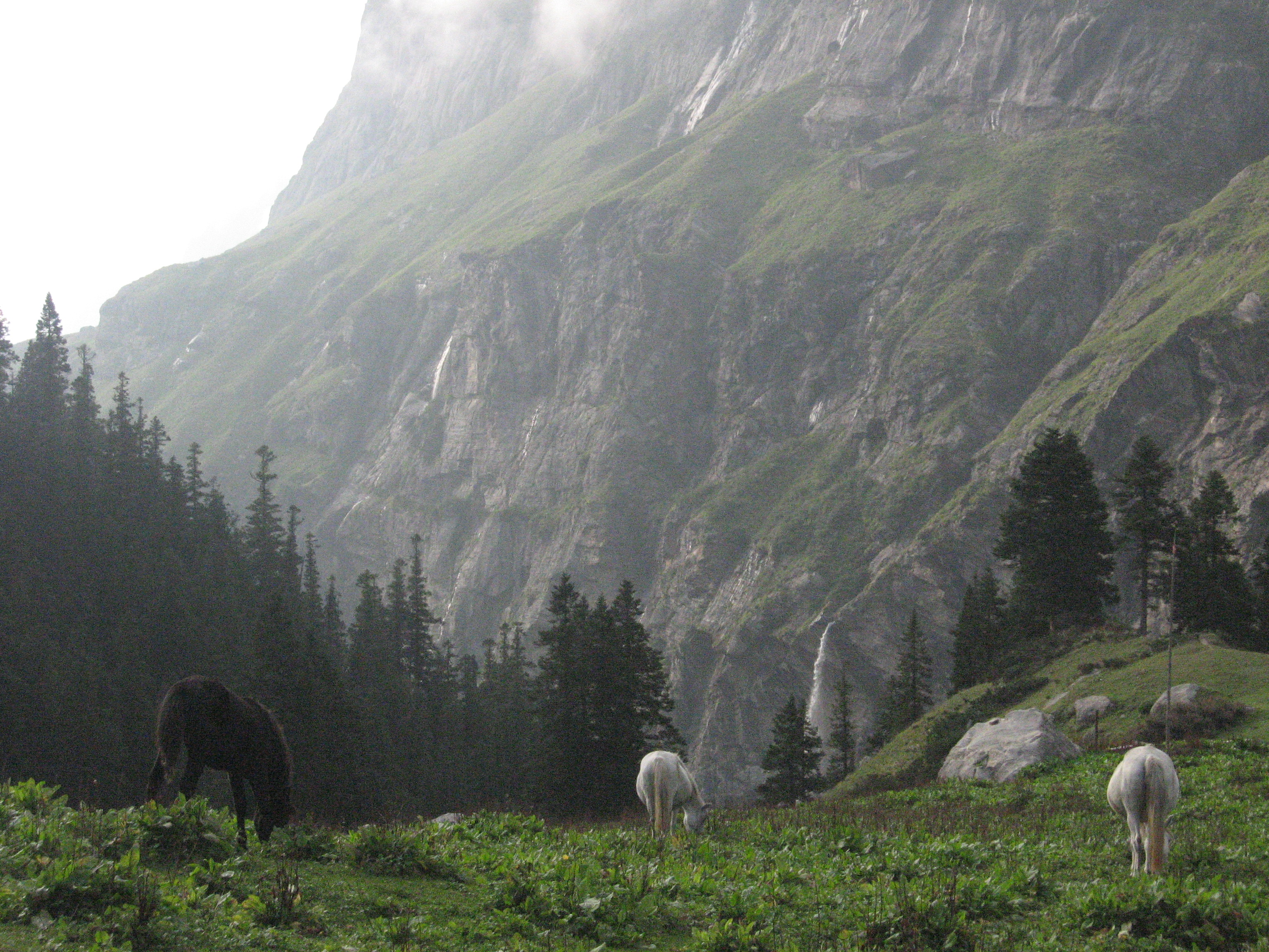 Parvati Valley